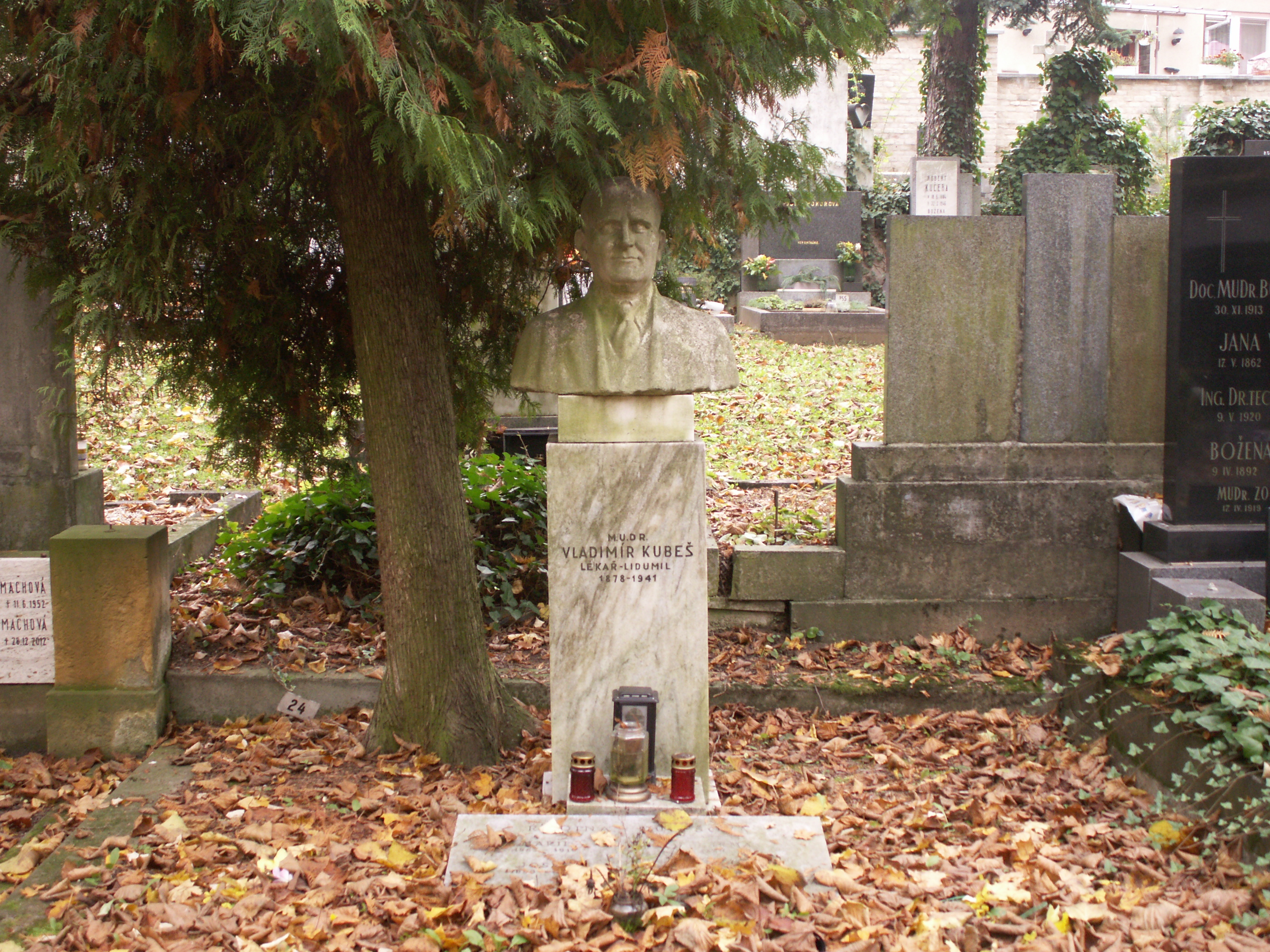 KONICA MINOLTA DIGITAL CAMERA, busta lékaře Vladimíra Kubeše od Vincence Havla, hřbitov Brno-Královo Pole